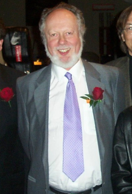 Photo I took backstage following a performance by the Edmonton Symphony Orchestra Front row left to right: Allan Gilliland, Malcolm Forsyth, Alan Gordon Bell, John Estacio, and Jeffrey McCune